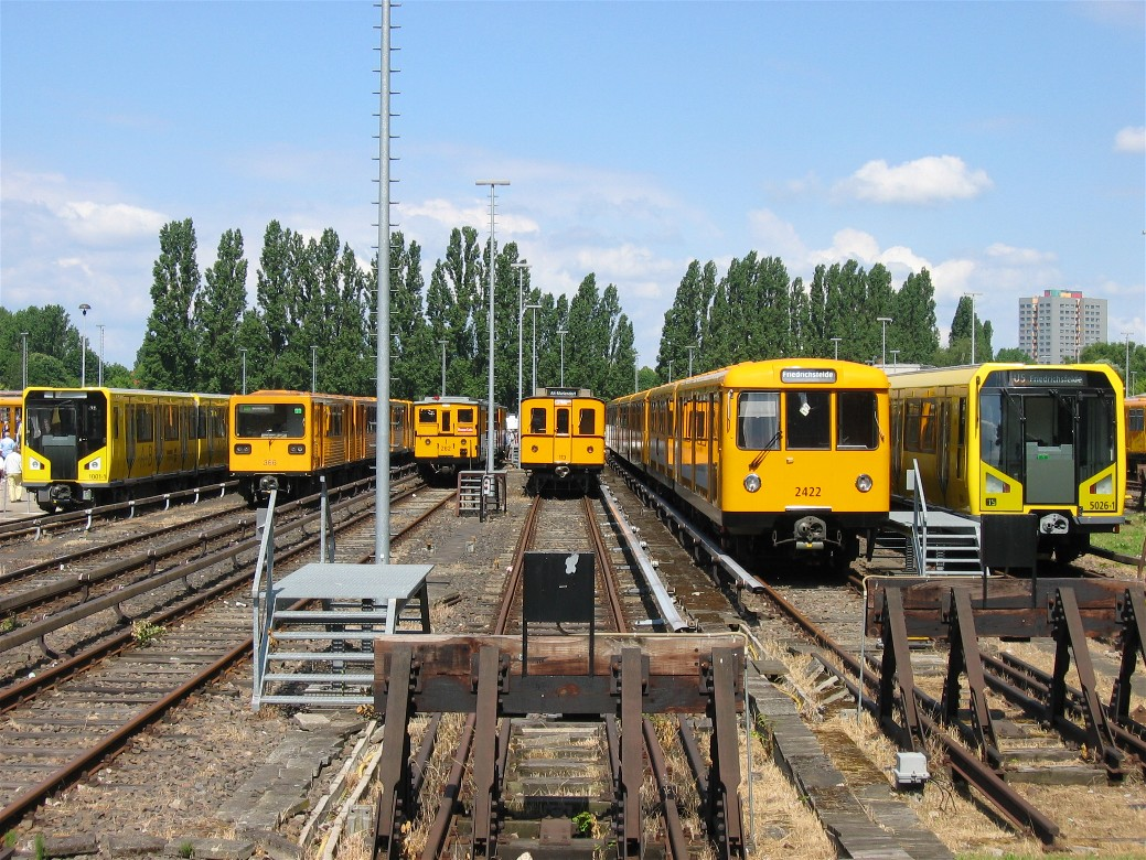 Different train types of the Berlin U-Bahn at the Depot Friedrichsfelde. From left to right